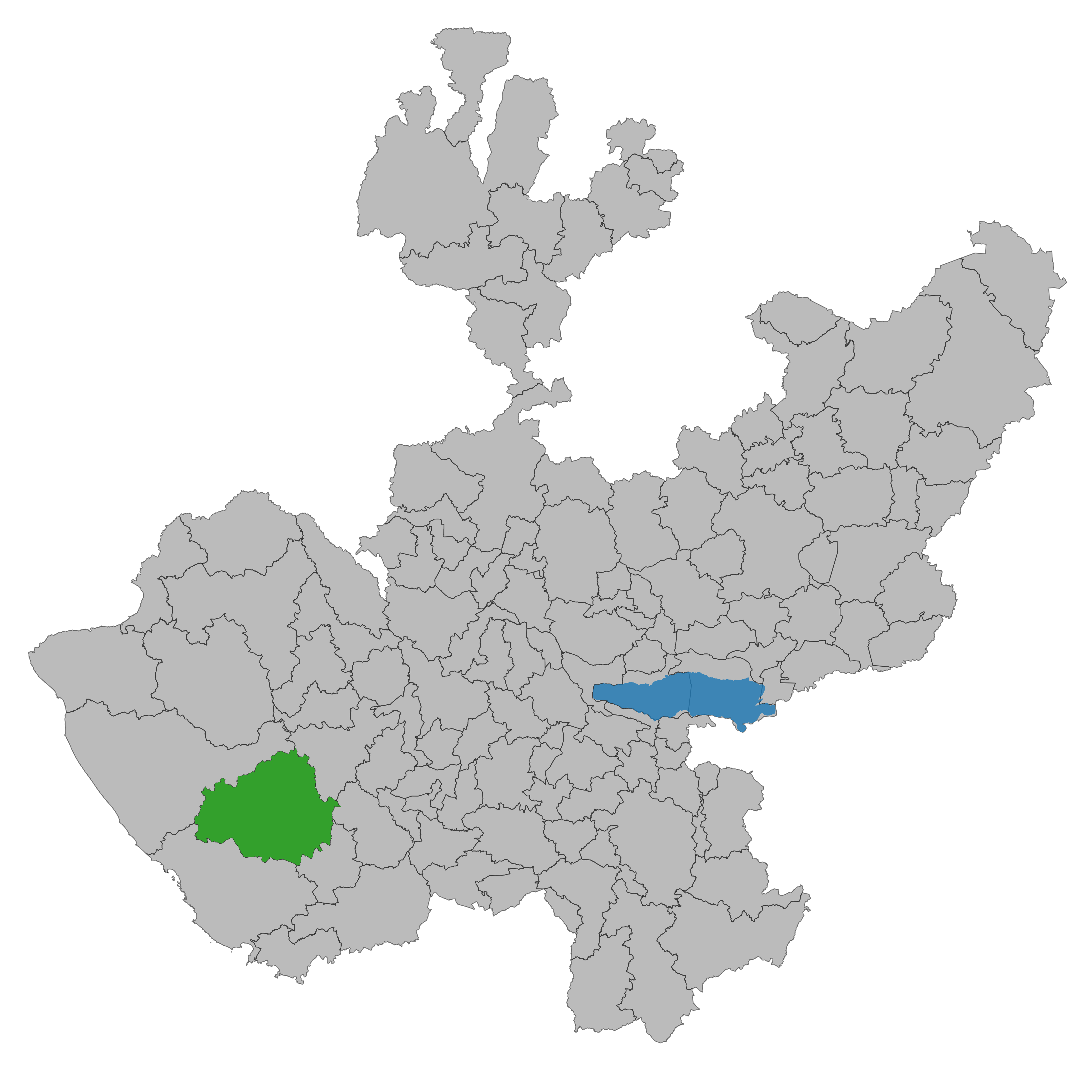 Municipality of Jalisco. Prepared with the software QGIS version 2.8.2 Wien & with information of SCINCE 2010 version 05/2013